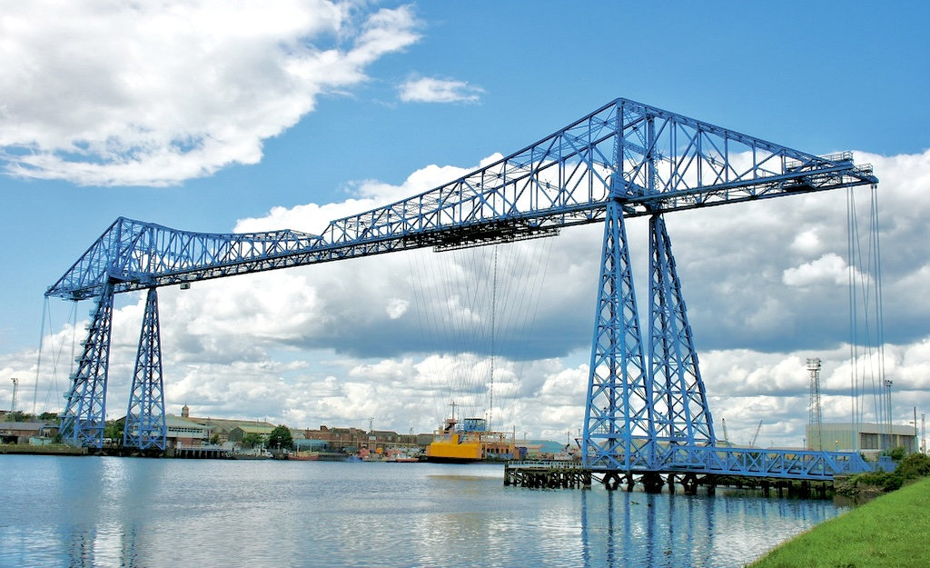 The Middlesbrough Transporter Bridge is the furthest downstream bridge across the River Tees; it connects Middlesbrough (south bank) to Port Clarence (north bank), and a travelling suspended 'car' or 'gondola' carries motor vehicles across.